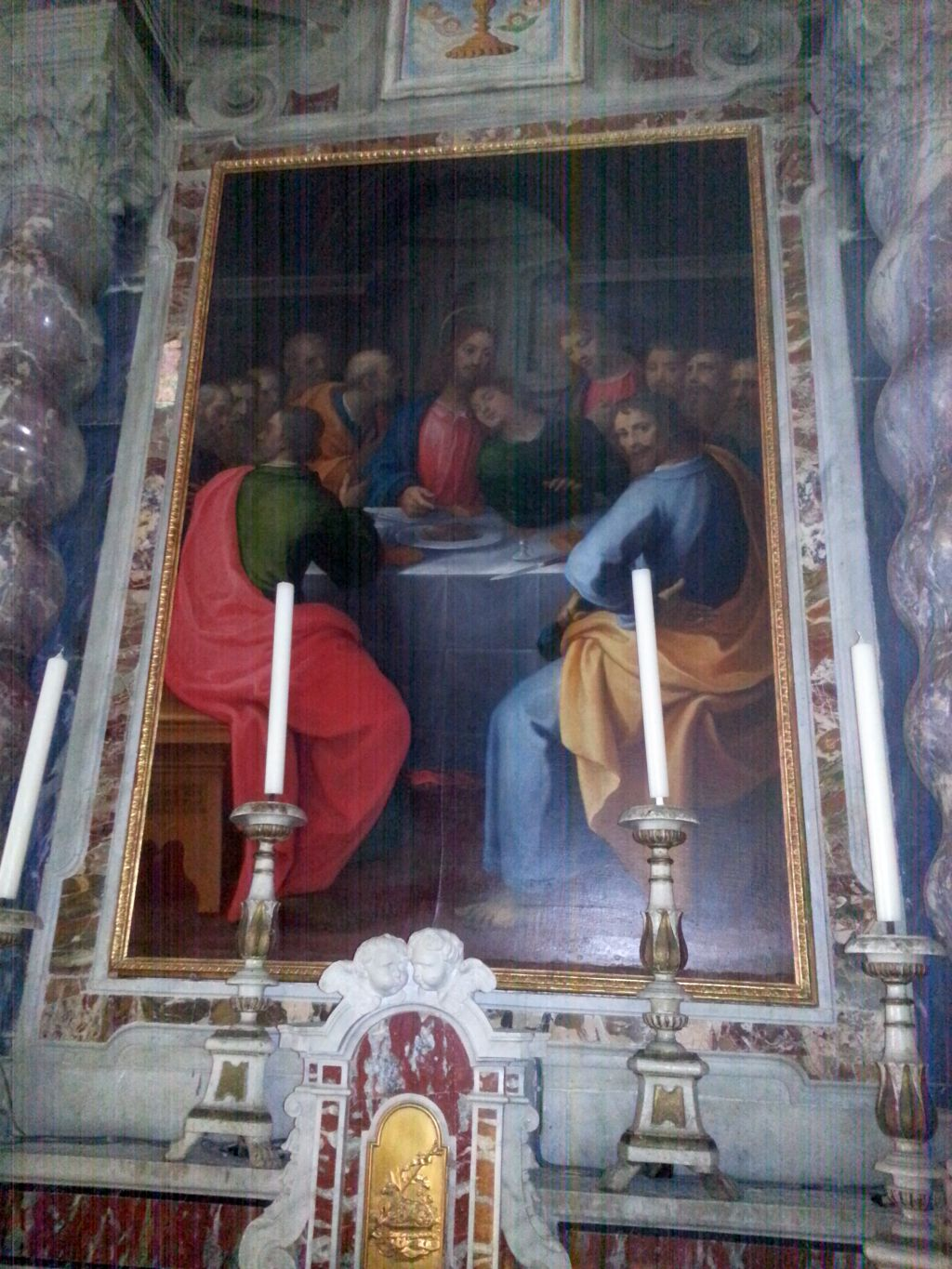 Gaspare Mannucci_Ultima_Cena, oil on canvan XVII sec